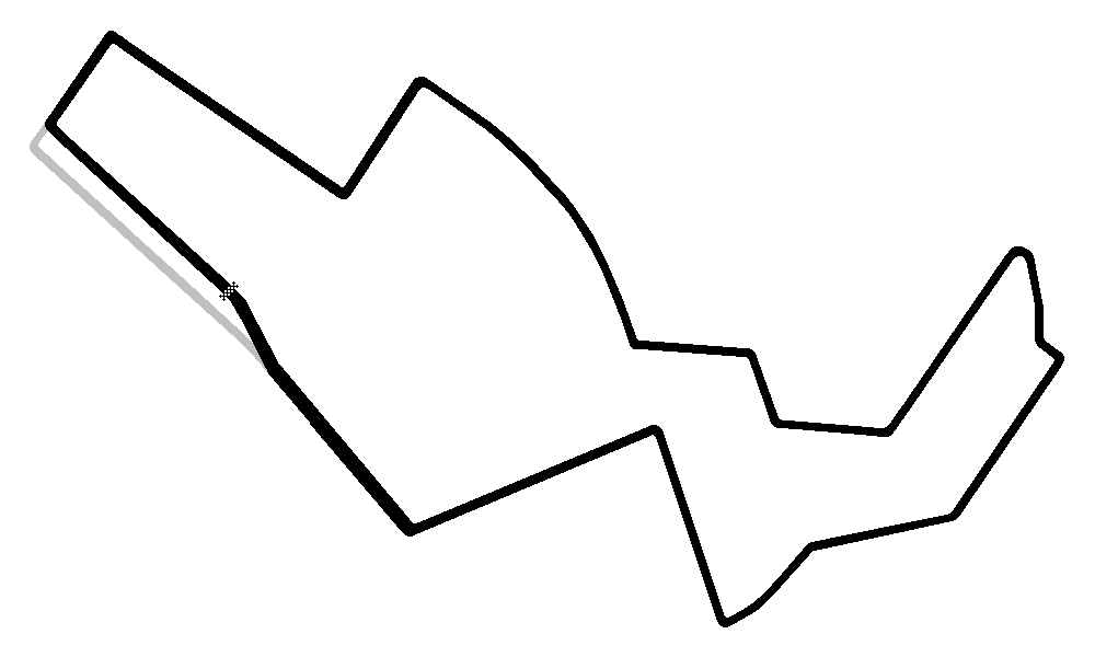 Map of the Piriápolis street circuit, used for the Piriápolis Grand Prix.